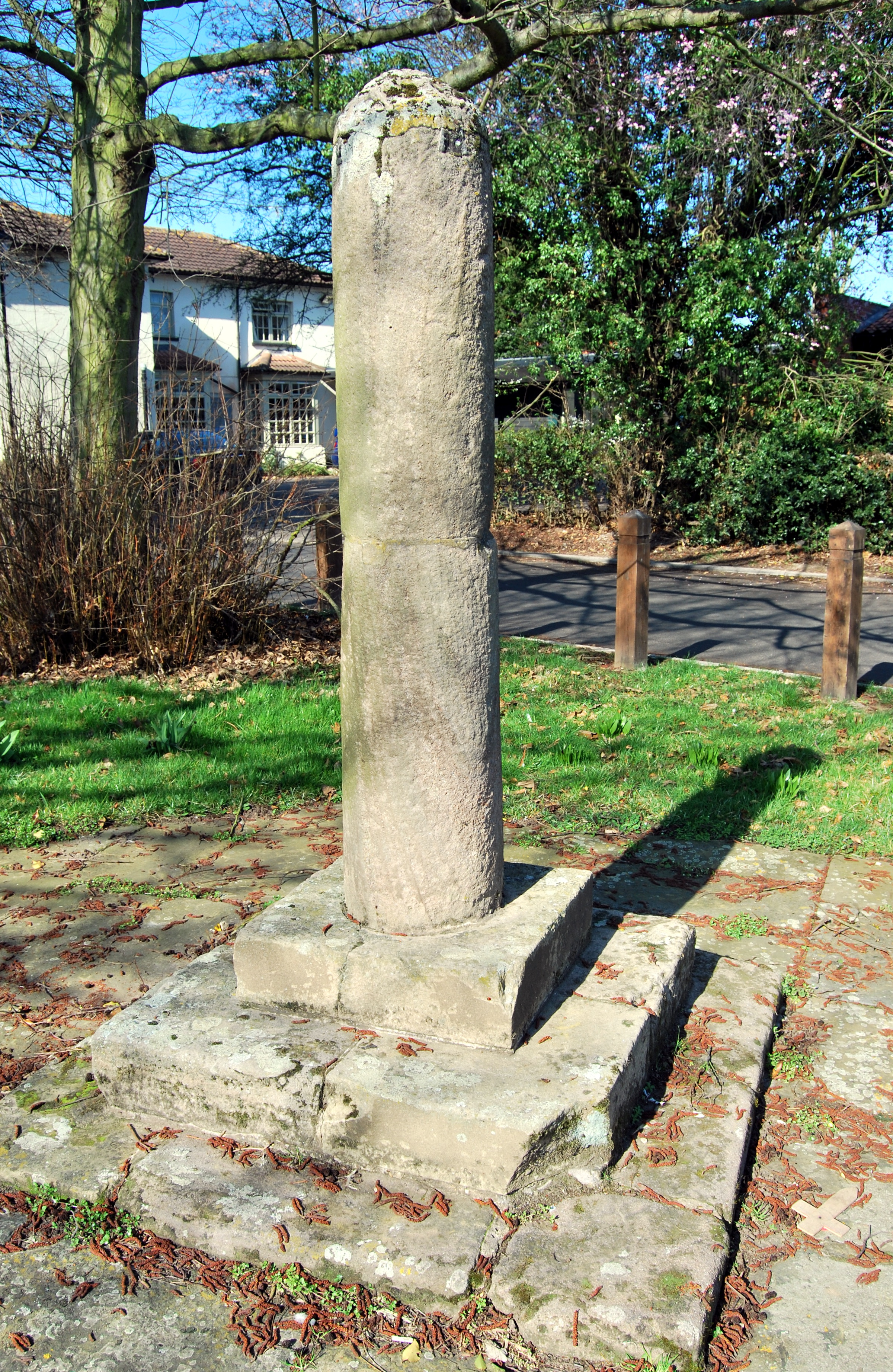 Pillar situated near All saints church in Cotgrave